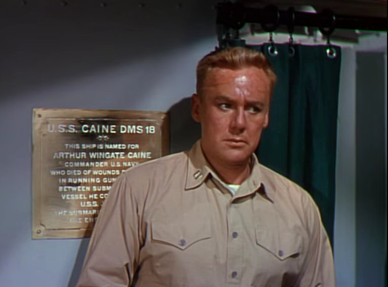 Screenshot from trailer for The Caine Muttiny (1954); no copyright